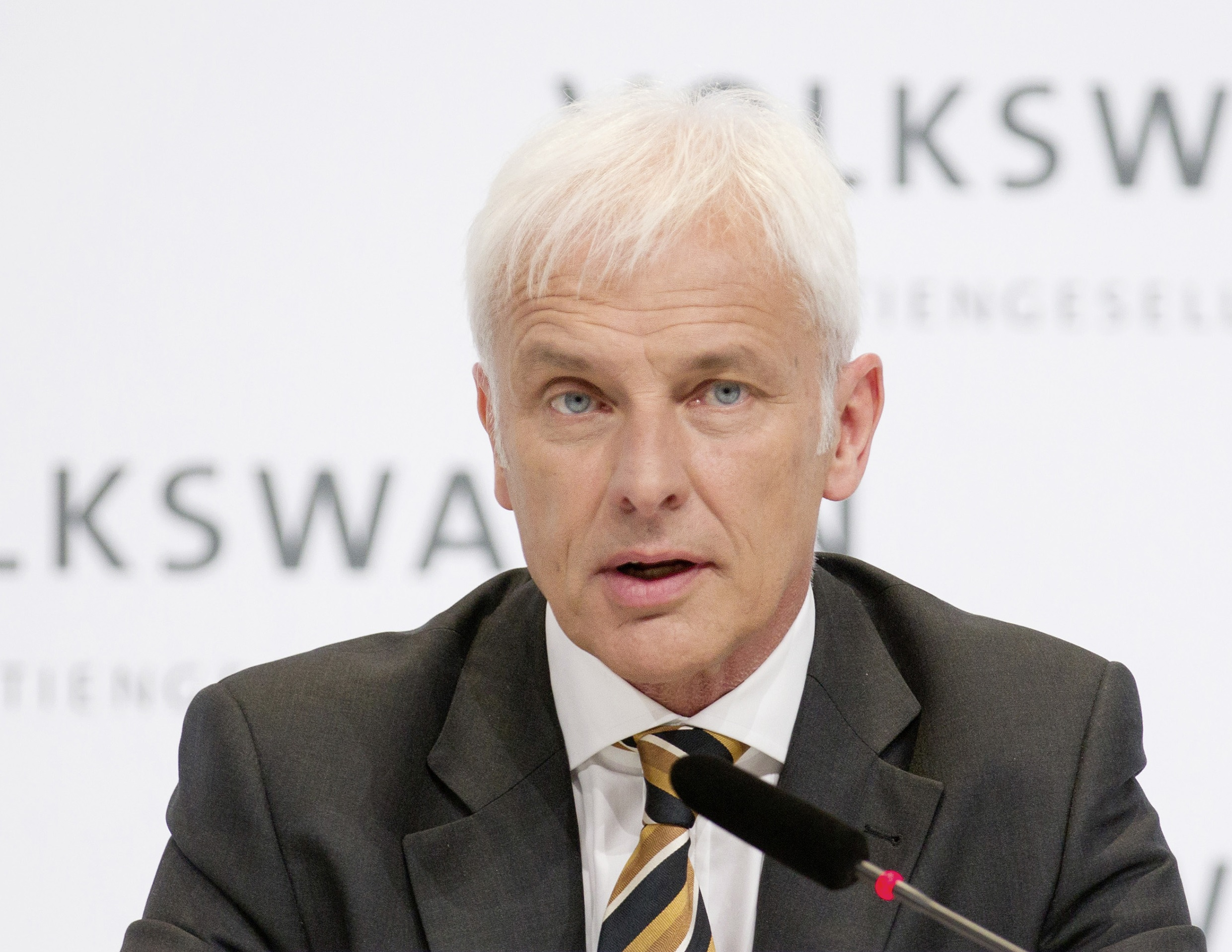 Matthias Müller, CEO of the Volkswagen Group. Müller was appointed CEO 25/9 -15.